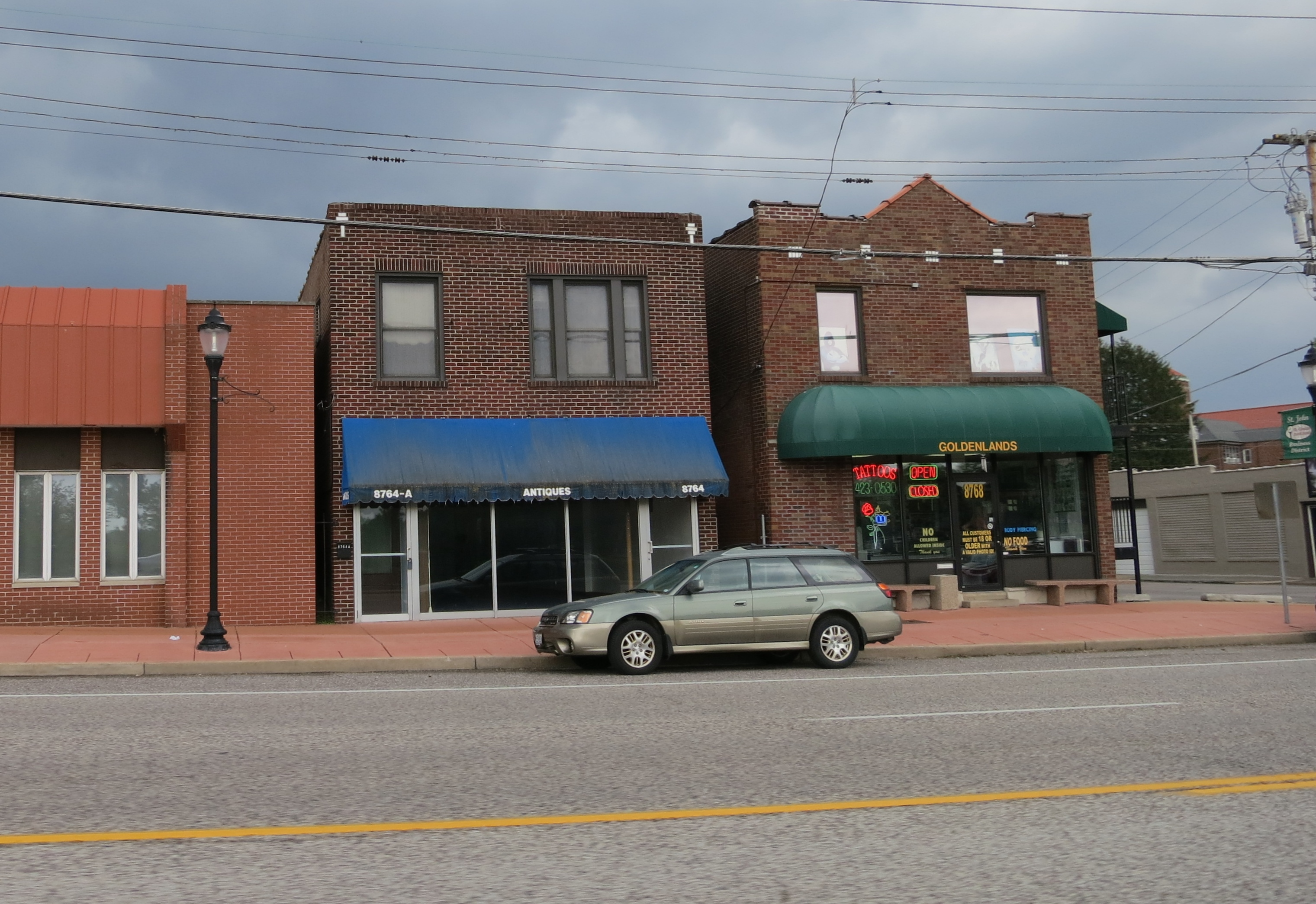 Downtown St. John